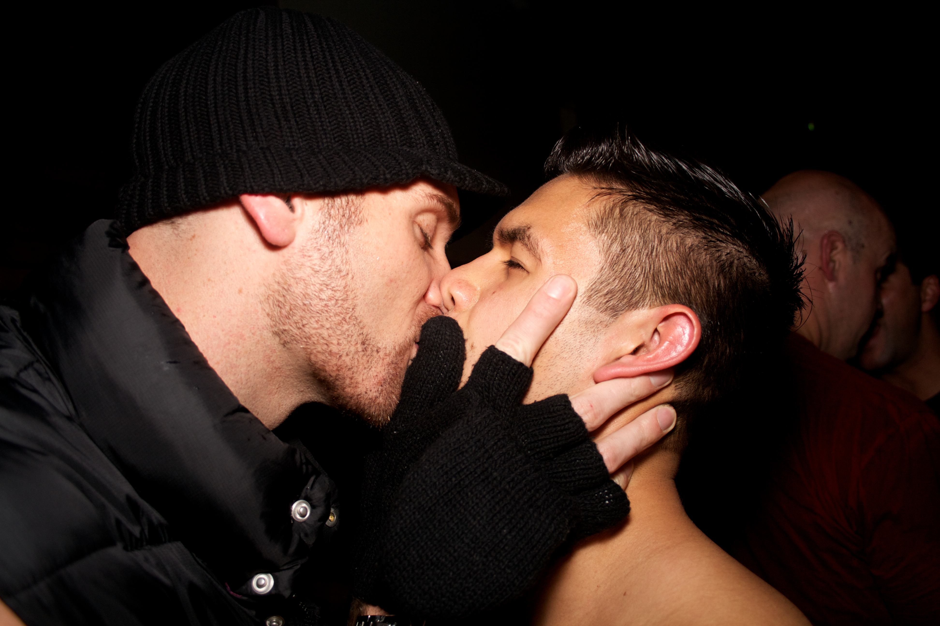 A preview of the photos I took at Mr. Big Top, Nov 27 2010 at Club 8. Full set (including a bunch of rather more saucy photos) will appear on Edge San Francisco.